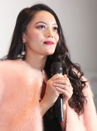 Rewati Chetri at trailer launching event of movie 'Summer Love'